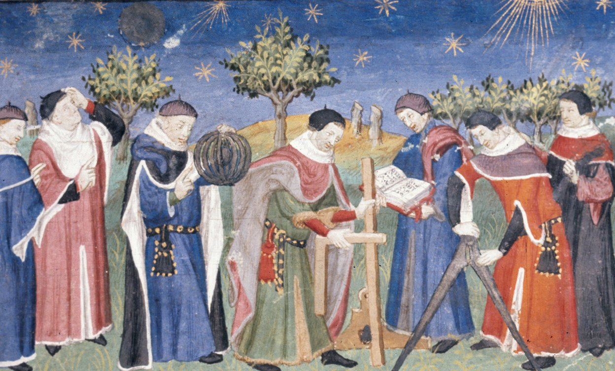 Landscape with clerks studying astronomy and geometry, showing an armillary sphere, square, compasses, etc. Title of Book: La Vraye Histoire du Bon Roy Alixandre (The Alexander Romance in Old French prose). [ BL Royal MS 20 B XX ] Author of the book: Pseudo-Callisthenes Produced in: France; early 15th century Language: French